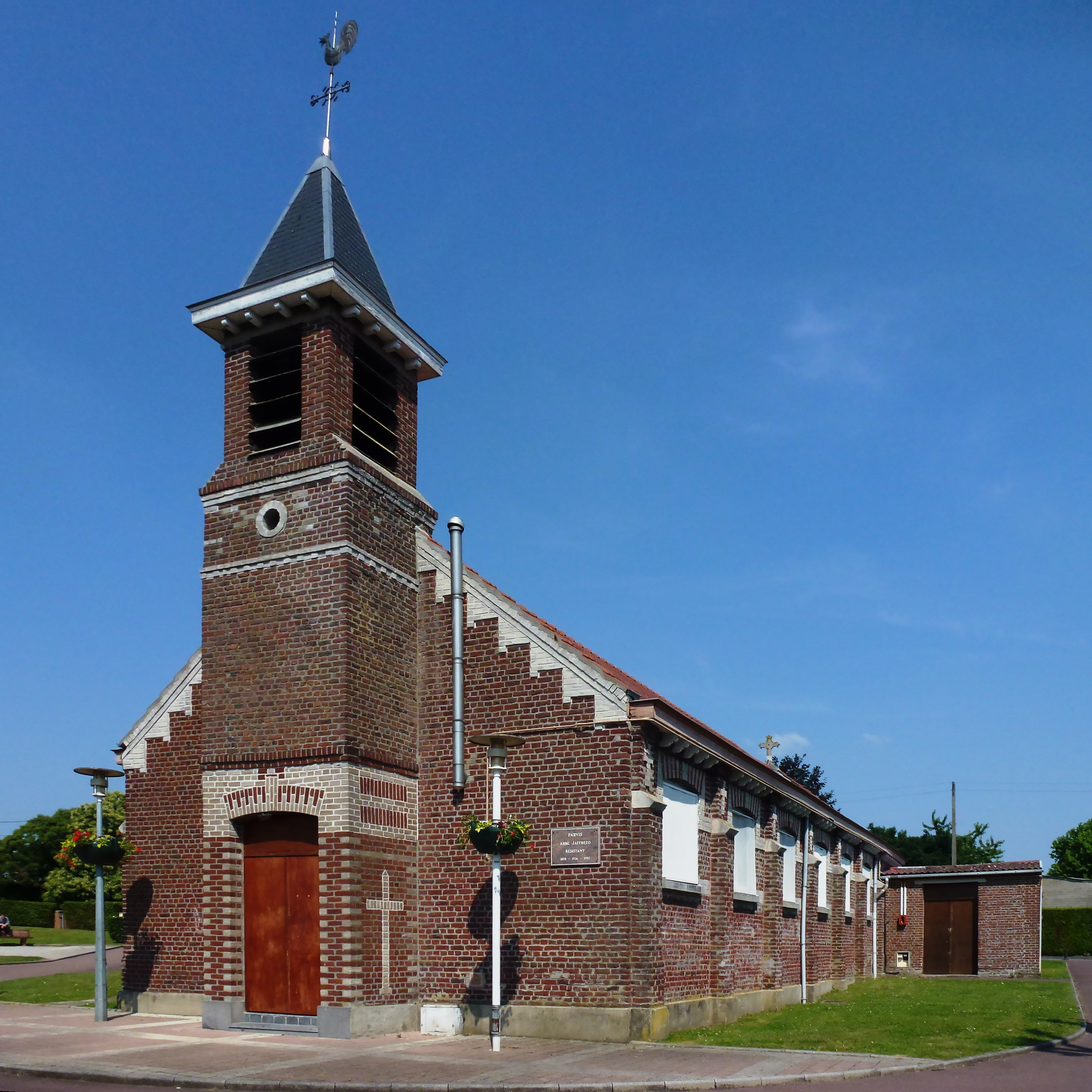 Wavrechain-sous-Denain (Nord, Fr) église